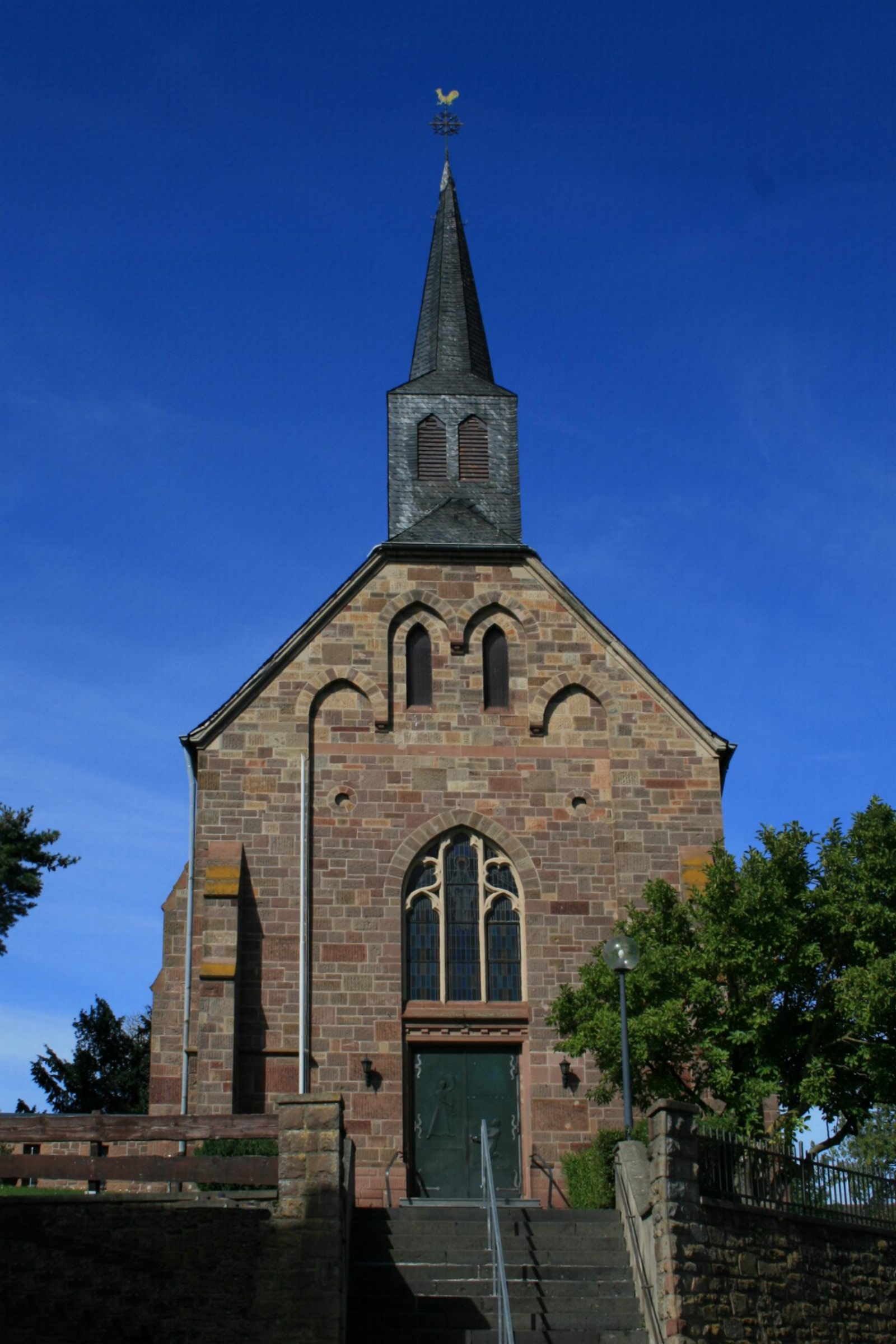 Cultural heritage monument No. 47 in Kreuzau